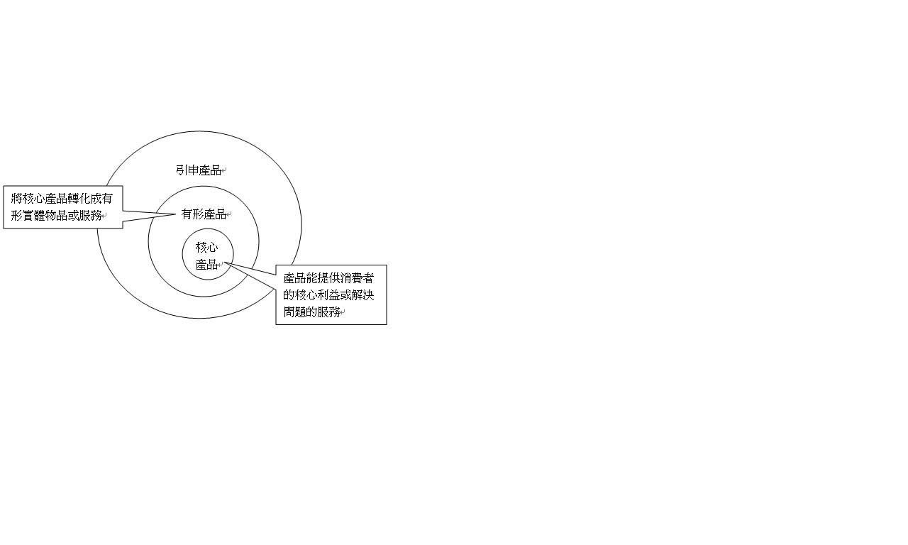 Diagram of product hierarchy (zh-hant)